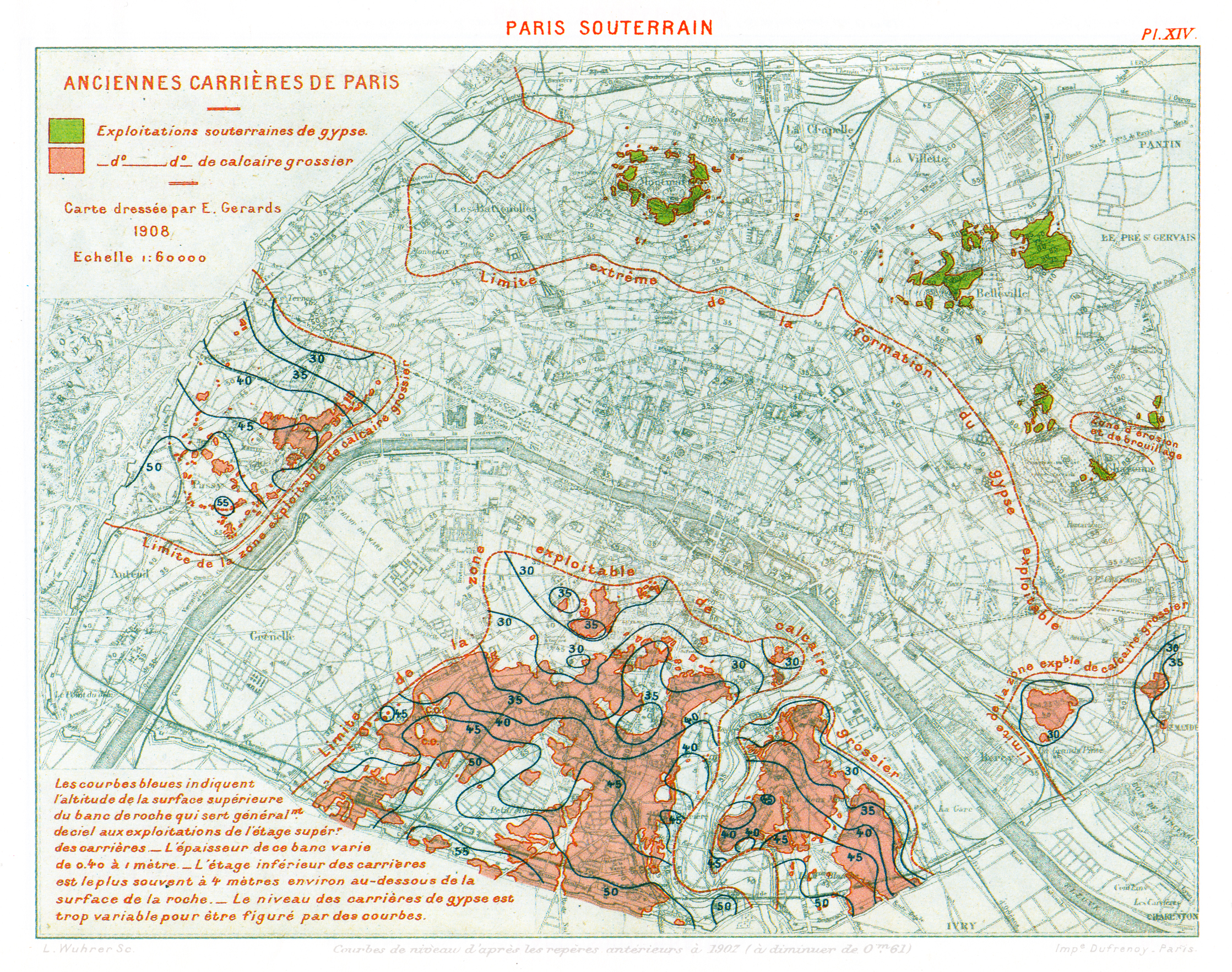 Former Mines of Paris English (en): Underground gypsum exploitations Underground limestone exploitations Map drafted by Émile Gérards 1908 Scale: 1:60,000 Limite extrême de la formation de gypse exploitable : Extreme limit of exploitable gypsum deposits Limite de la zone exploitable du calcaire grossier : Exploitable limestone deposit zone limits Zone d'erosion et de brouillage : Erosion zone having no distinct geological formations Courbes de niveau d'après les repères antérieurs à 1907 (à diminuer de 0m61) : Elevation curves based on pre-1907 markers (to be reduced by .61 metres) Text : "The blue curves indicate the altitude at which the topmost extremity of the rock formation is generally exposed to the surface in the upper level of mine exploitations - This (limestone) deposit's thickness varies from .40 metres to 1 metre - The lower level of a (limestone) mine most often begins around 4 metres below the rock formation surface - Gypsum mine levels are too varied to be represented by curves"